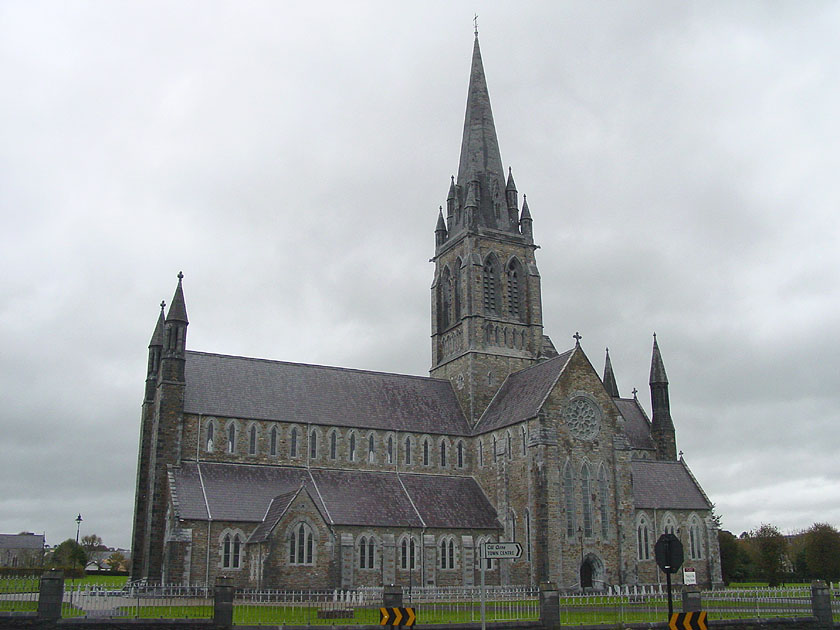 St Mary's Cathedral, Killarney Photograph taken by David Edgar in November 2005.